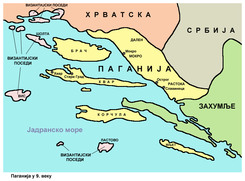 Pagania in the 9th century.